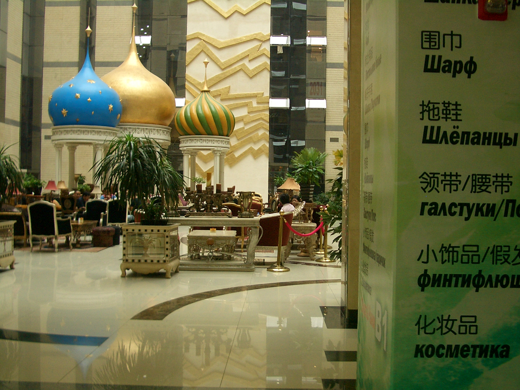 In Yabao Lu (Yabao Street) in Chaoyang District, Beijing